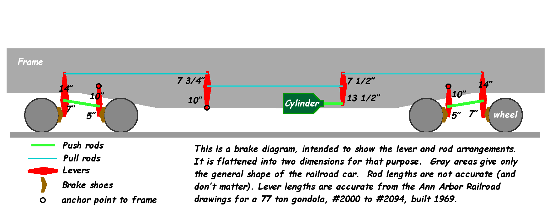 This is a brake diagram, intended to show the lever and rod arrangements. It is flattened into two dimensions for that purpose. Gray areas give only the general shape of the railroad car. Rod lengths are not accurate (and don't matter). Lever lengths are accurate from the Ann Arbor Railroad drawings for a 77 ton gondola, #2000 to #2094, built 1969. Note how the lever length ratios lead to equal pressure applied to each axle. I drew it for Wikipedia on Feb. 25 2008 from an Ann Arbor Railroad mechanical drawing of Nov. 25 1969, in turn from the book "Freight Cars of the Ann Arbor Railroad 1947-1985" by Craig Wilson, published 1989 by the Ann Arbor Railroad Technical & Historical Association. Software used: Appleworks 6.